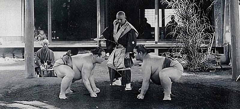 Hitachiyama(left), Umegatani(right), and Yoshida Oikaze(center)